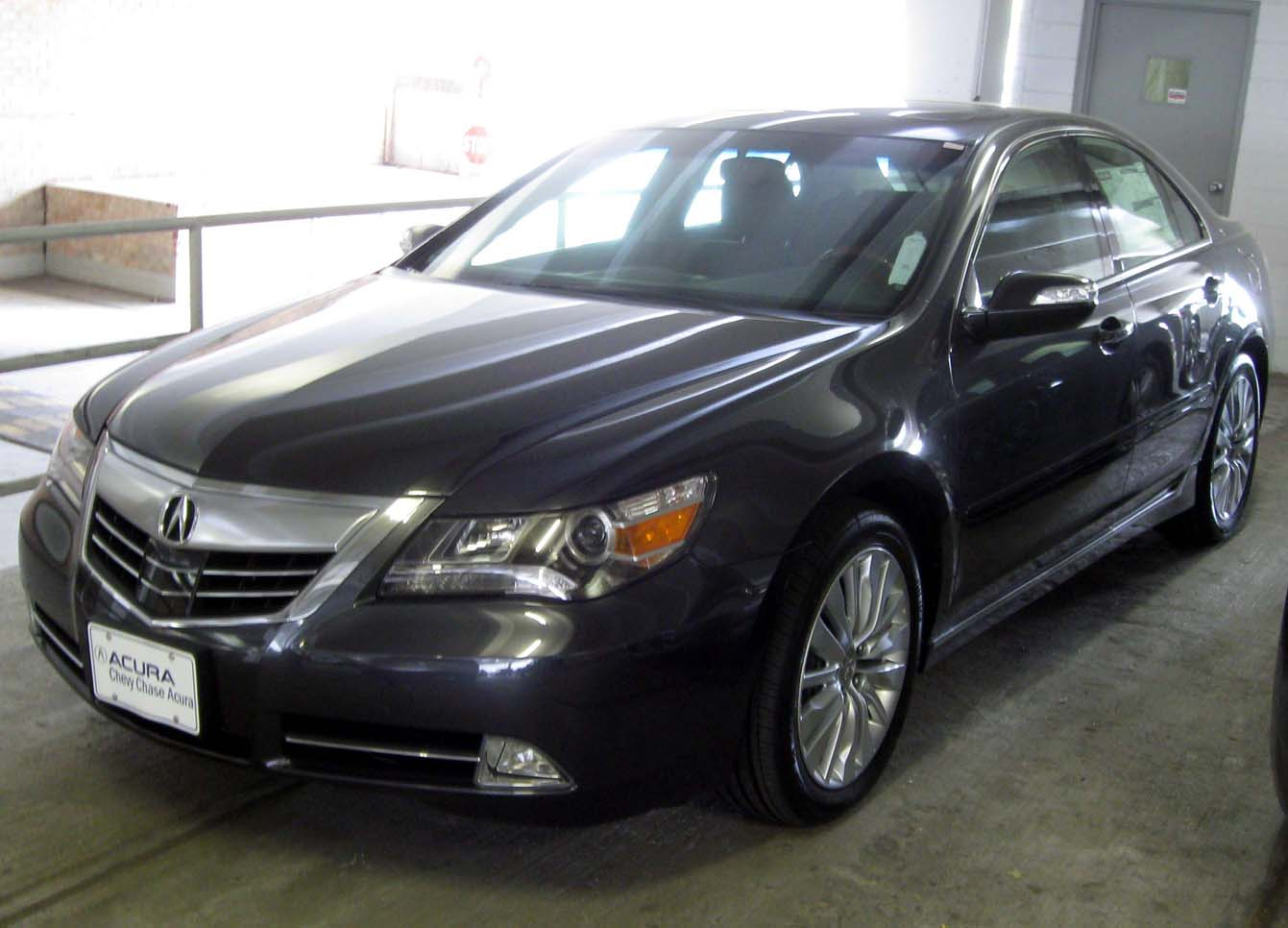 2012 Acura RL photographed in Bethesda, Maryland, USA.